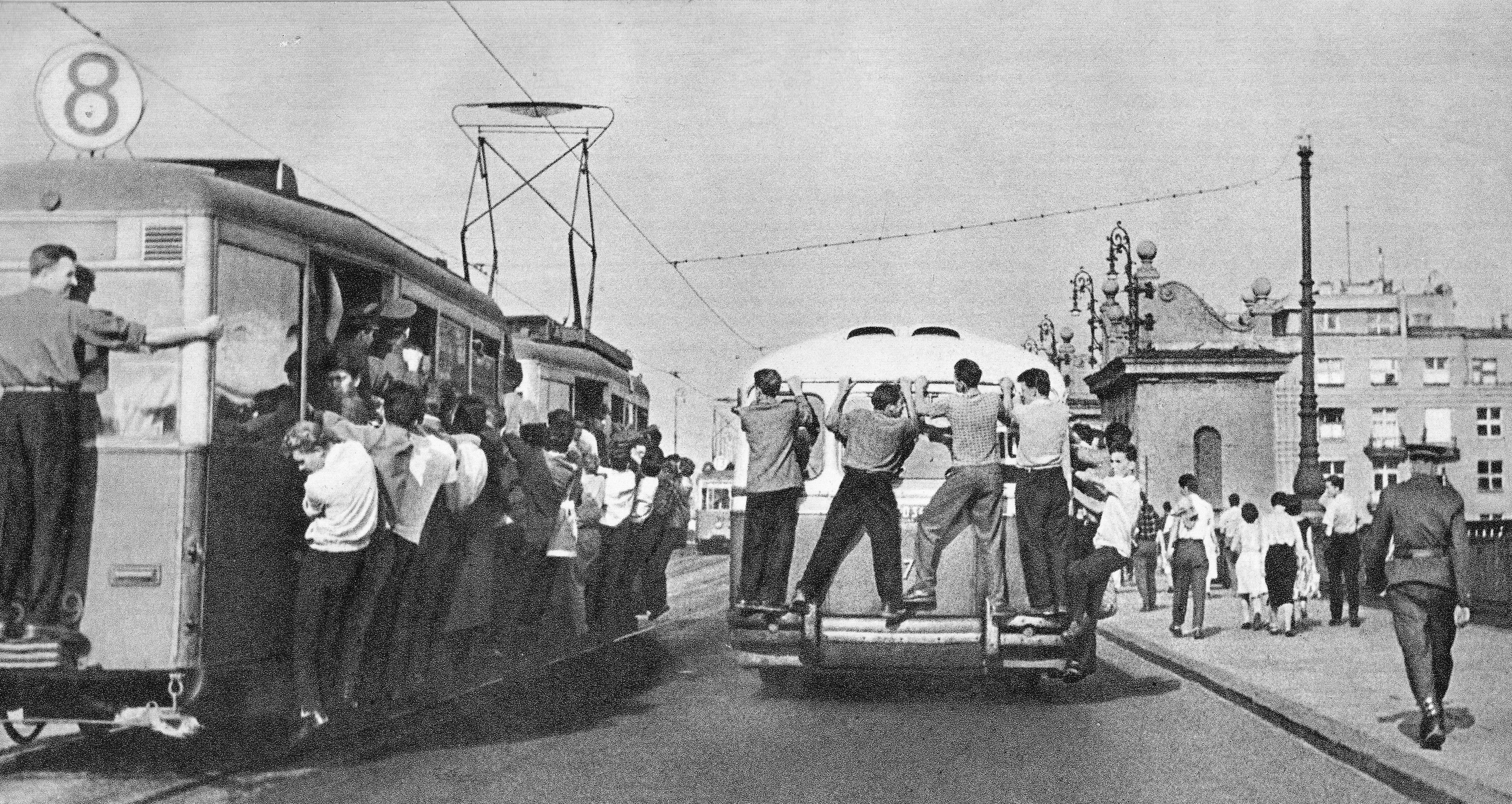 Crowded means of public transport on Poniatowski Bridge in Warsaw after the war